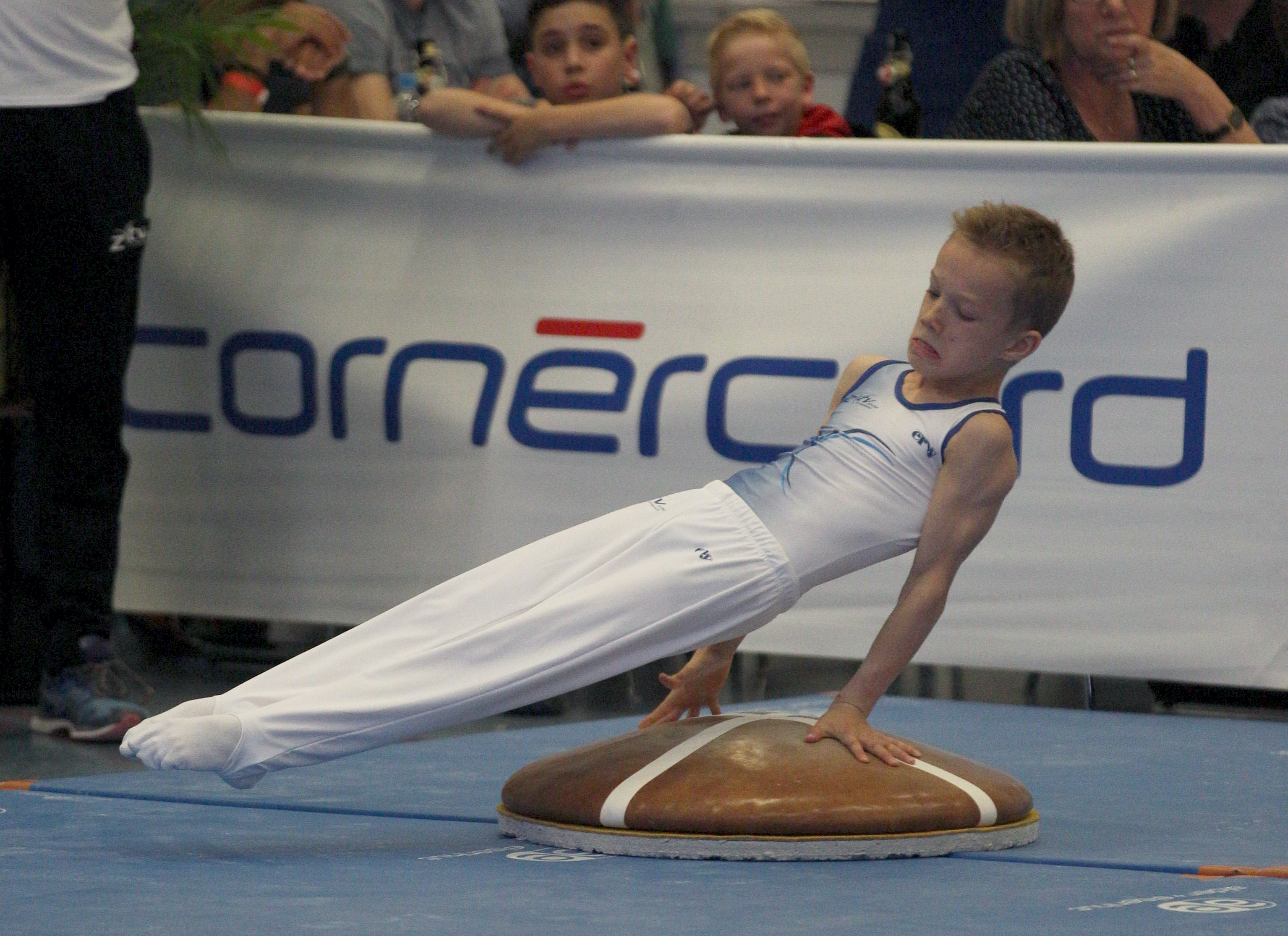 Pommel horse exercise during the P2 competition at the Swiss Junior Championships Artistic Gymnastics 2019 in Zuchwil on 1 June 2019. Depicted: Zürcher Turnverband.